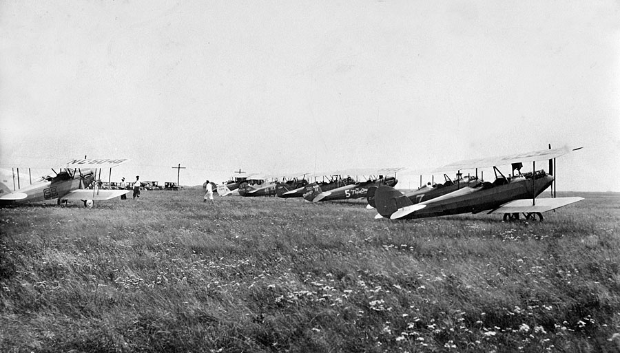 Edgartown Airfield at Katama, Edgartown, as it appeared in the 1920s. (Courtesy Stan Lair collection.)